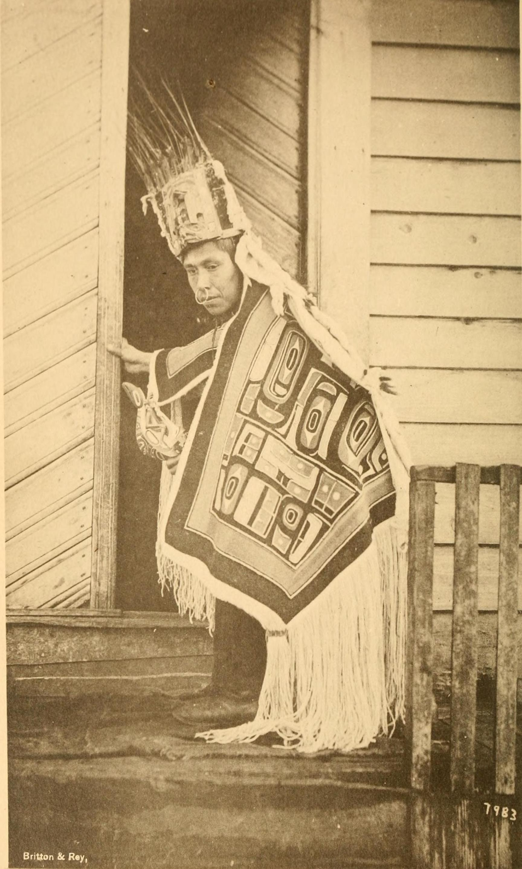 Kitch Kawk, a Tlingit man of Sitka, in dancing costume, probably 1886 or 1887. In the list of figures he is identified as a shaman.